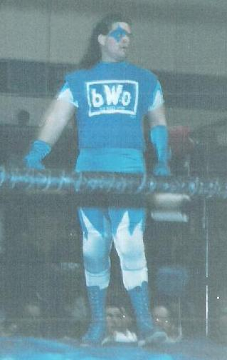 This is a photograpgh taken by me at a New Jack City Wrestling show from February of 1998 at Toms River HighSchool East, in Toms River New Jersey. It was shot with APS film, and uploaded to a JPG file via scanner.